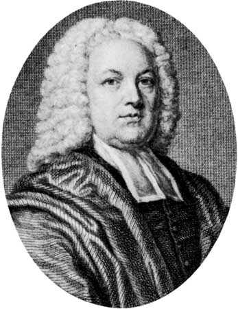 William Warburton (1698-1779)